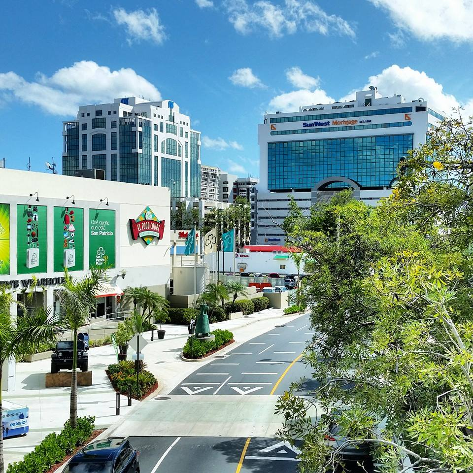 González Giusti Ave. in Guaynabo's CBD